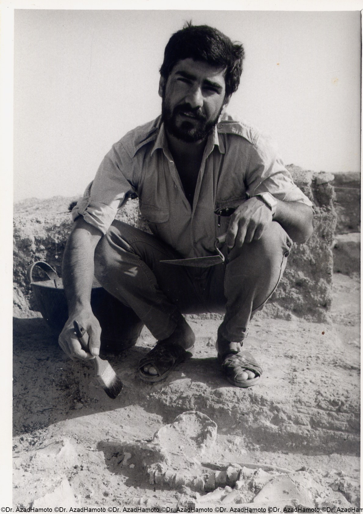 Azad Hamoto during archaeological excavations